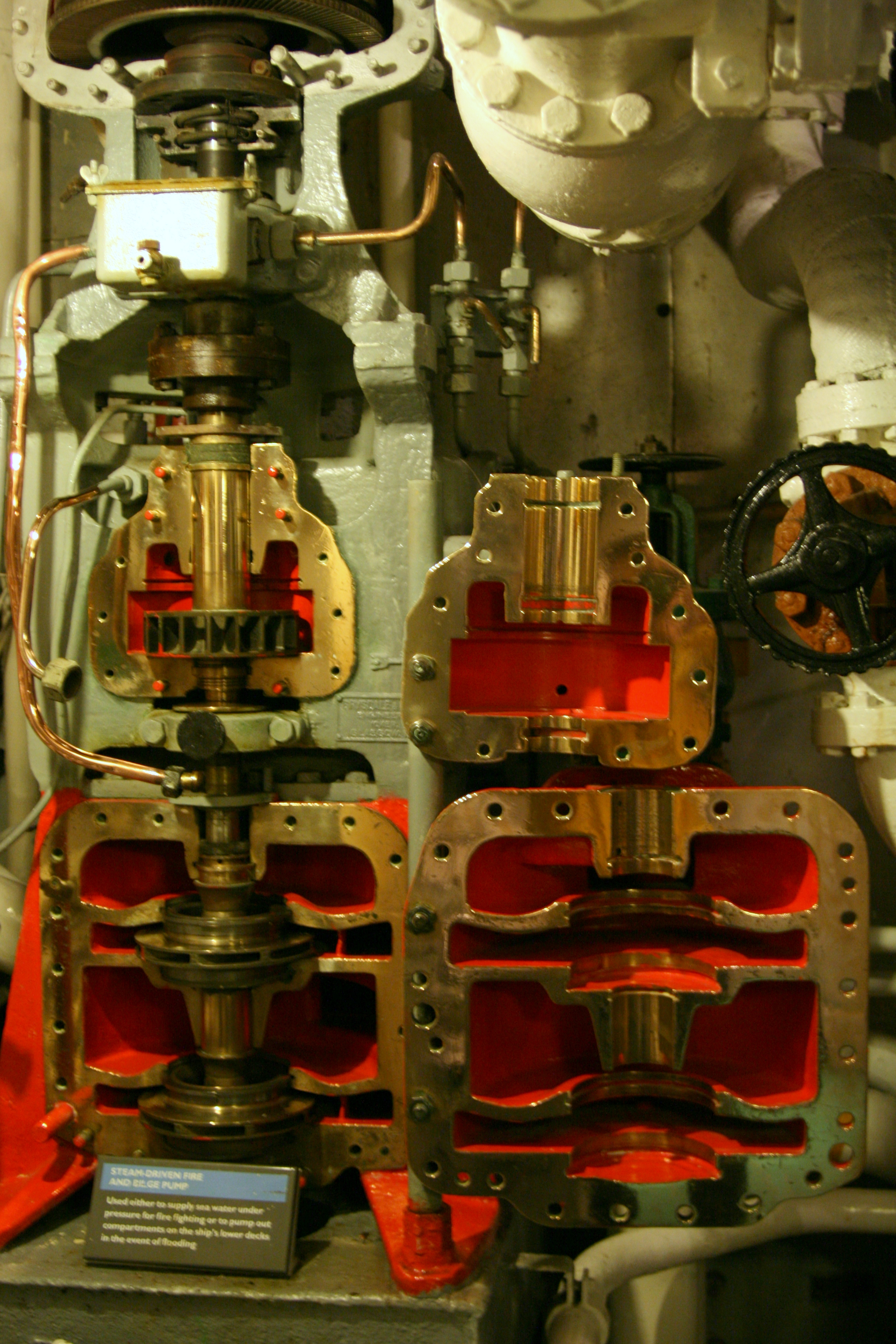 Open steam-driven fire and bilge pump on HMS Belfast. Used to supply seawater for firefighting or to pump it out from the bilge.